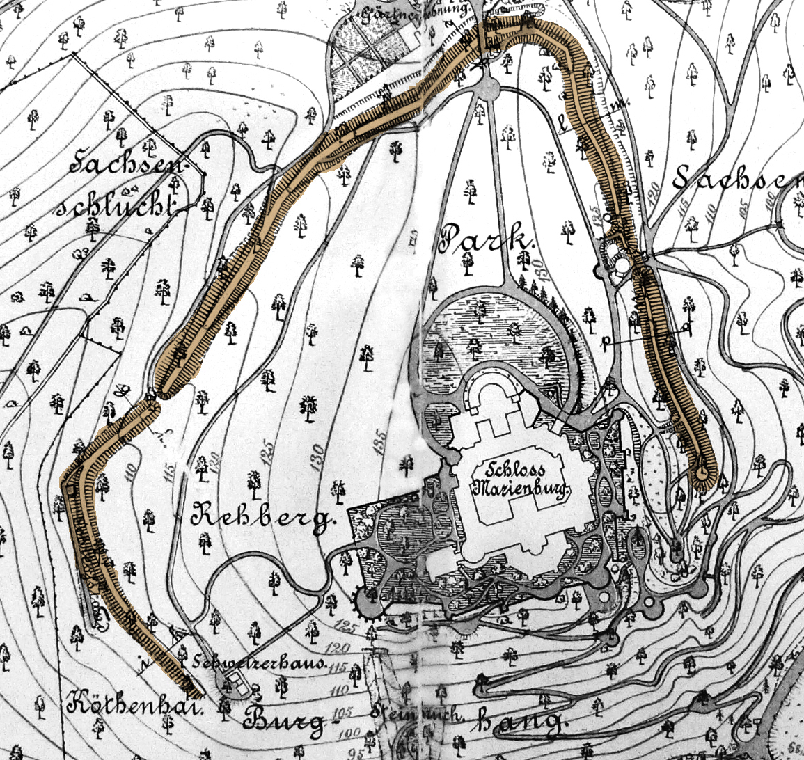 Wall encircling the castle Marienburg near Nordstemmen in Germany.